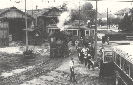 Orbassano, tramway station